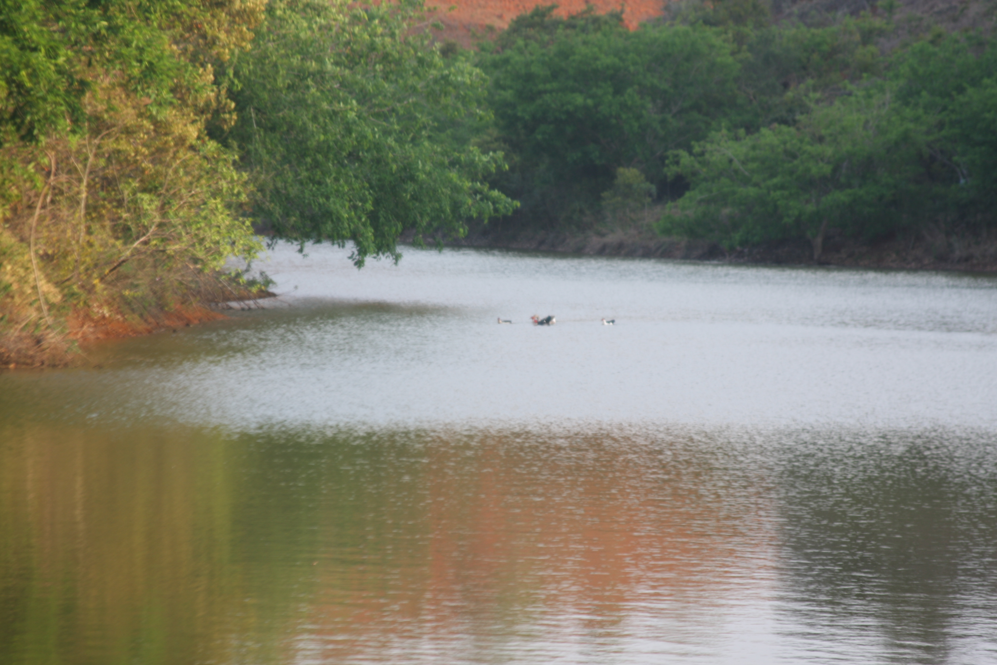 View of the Saint Joseph Lake, in Nova Era, Minas Gerais, Brazil.